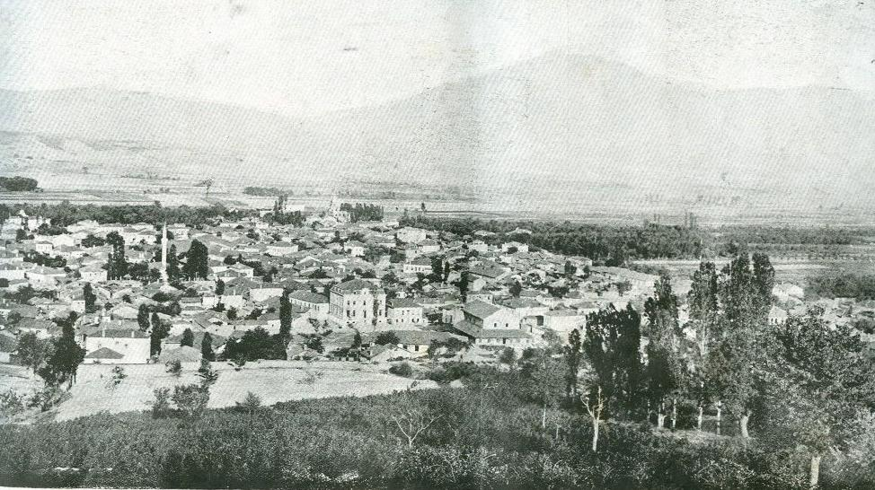 View of Resen, Macedonia